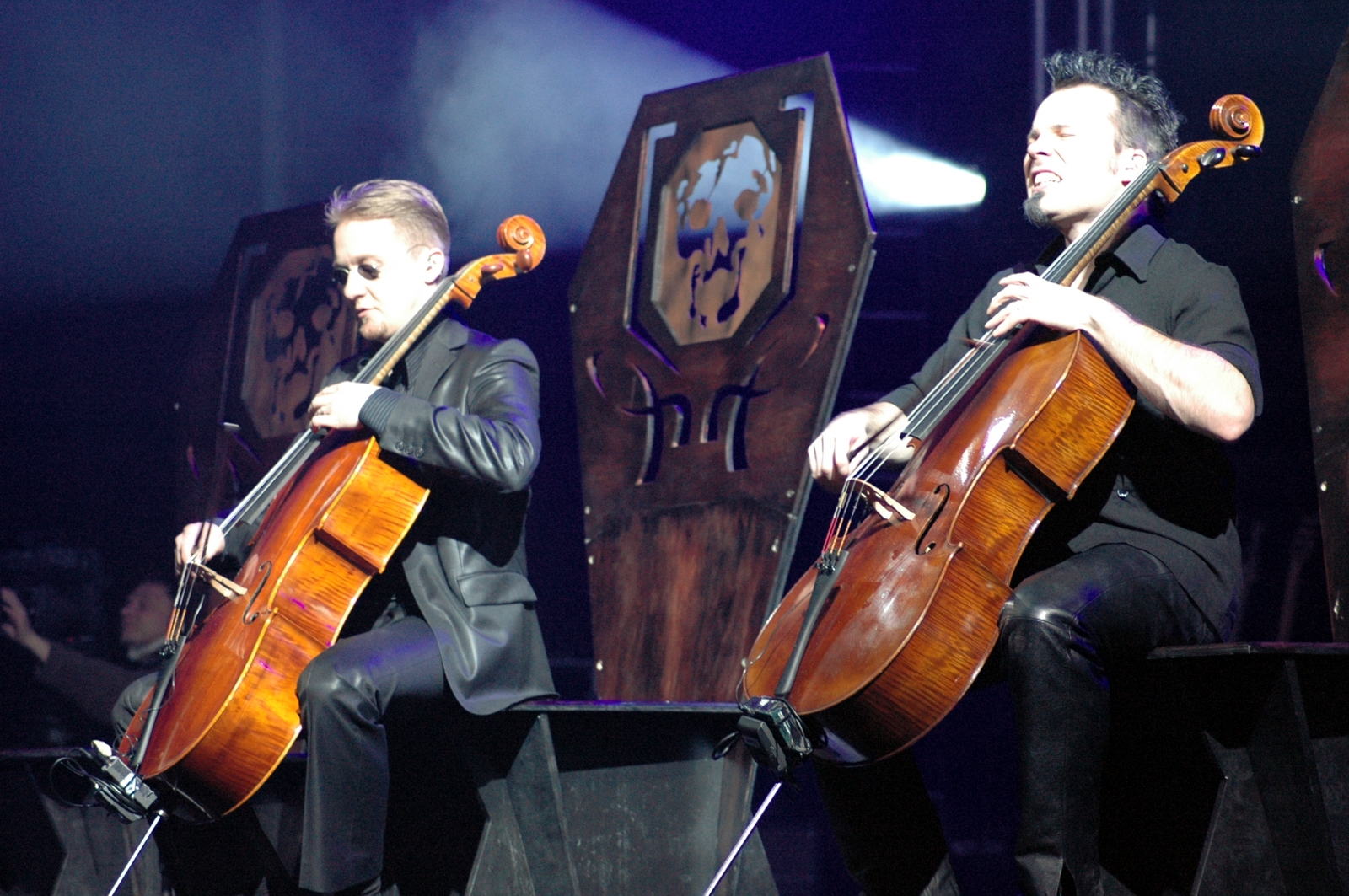 Antero Manninen (left) Paavo Lötjönen (right) from Apocalyptica at Metalmania Festival 2005 in Poland